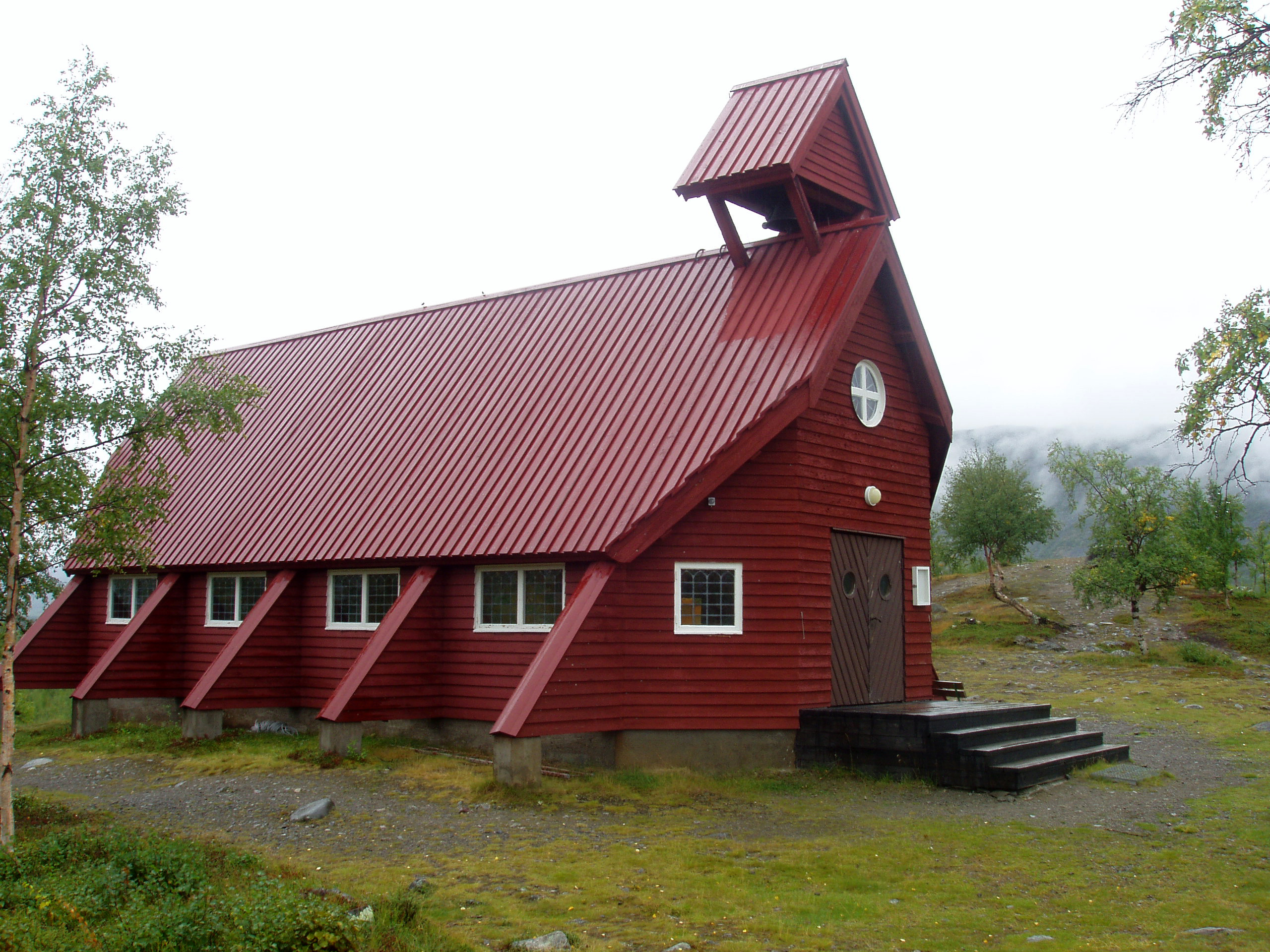 Nikkaluokta kapell. Side view. Gällivare kommun, Lappland, Norrbotten county, Sweden. The picture was taken 24th of August 2003 by Håkan Svensson (Xauxa).